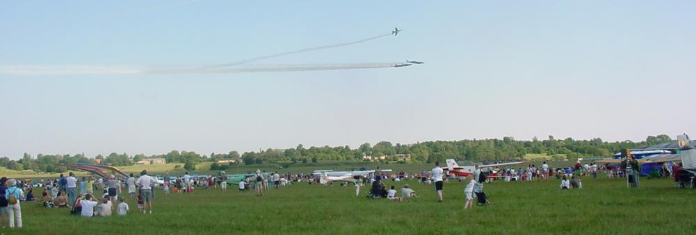 Open day with air show at the military airport Flyvestation Værløse while it was still in active military use